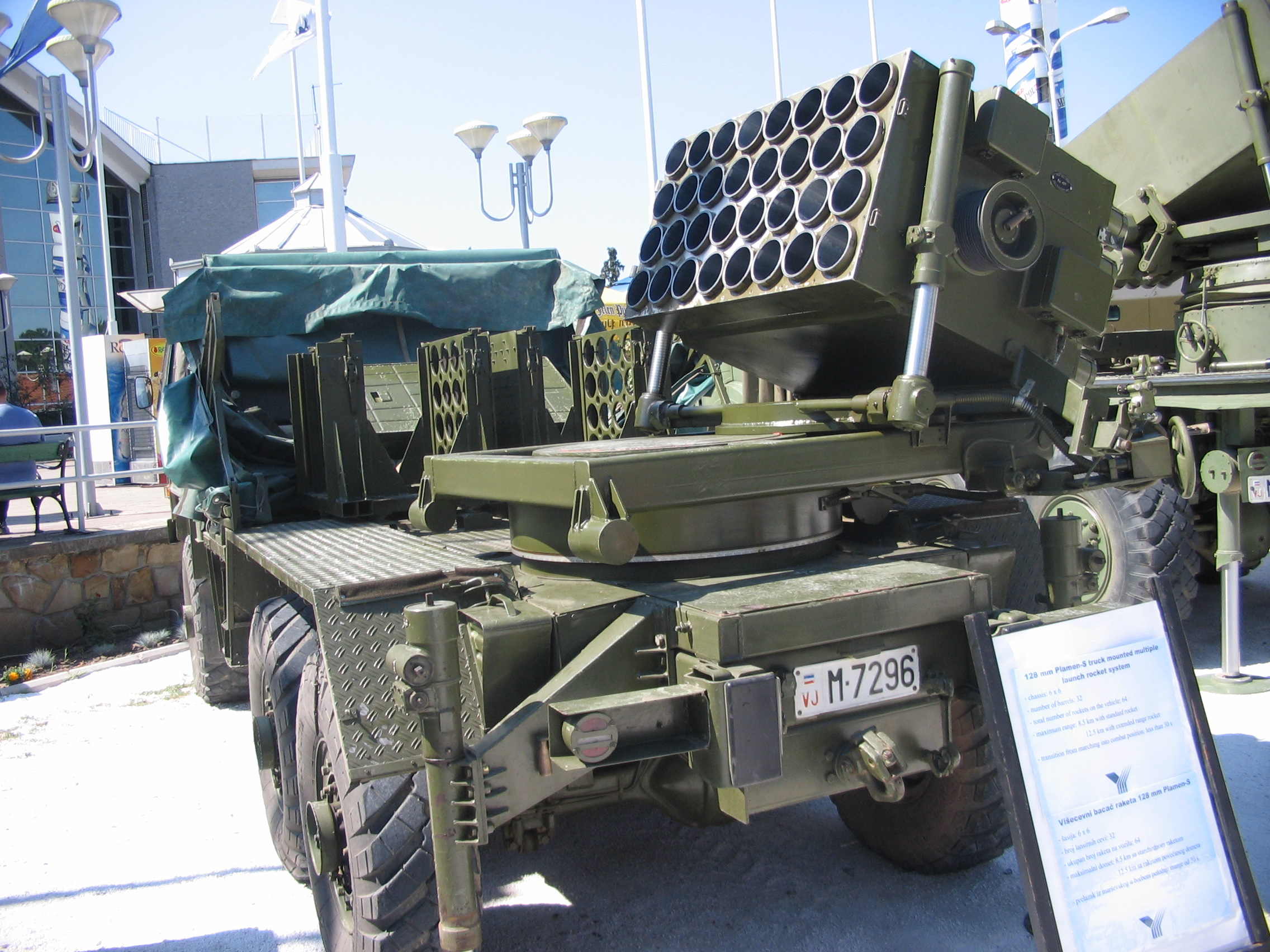 Self-propeled multi-rocket launcher M-94 Plamen S at display on "Partner 2007" military fair.